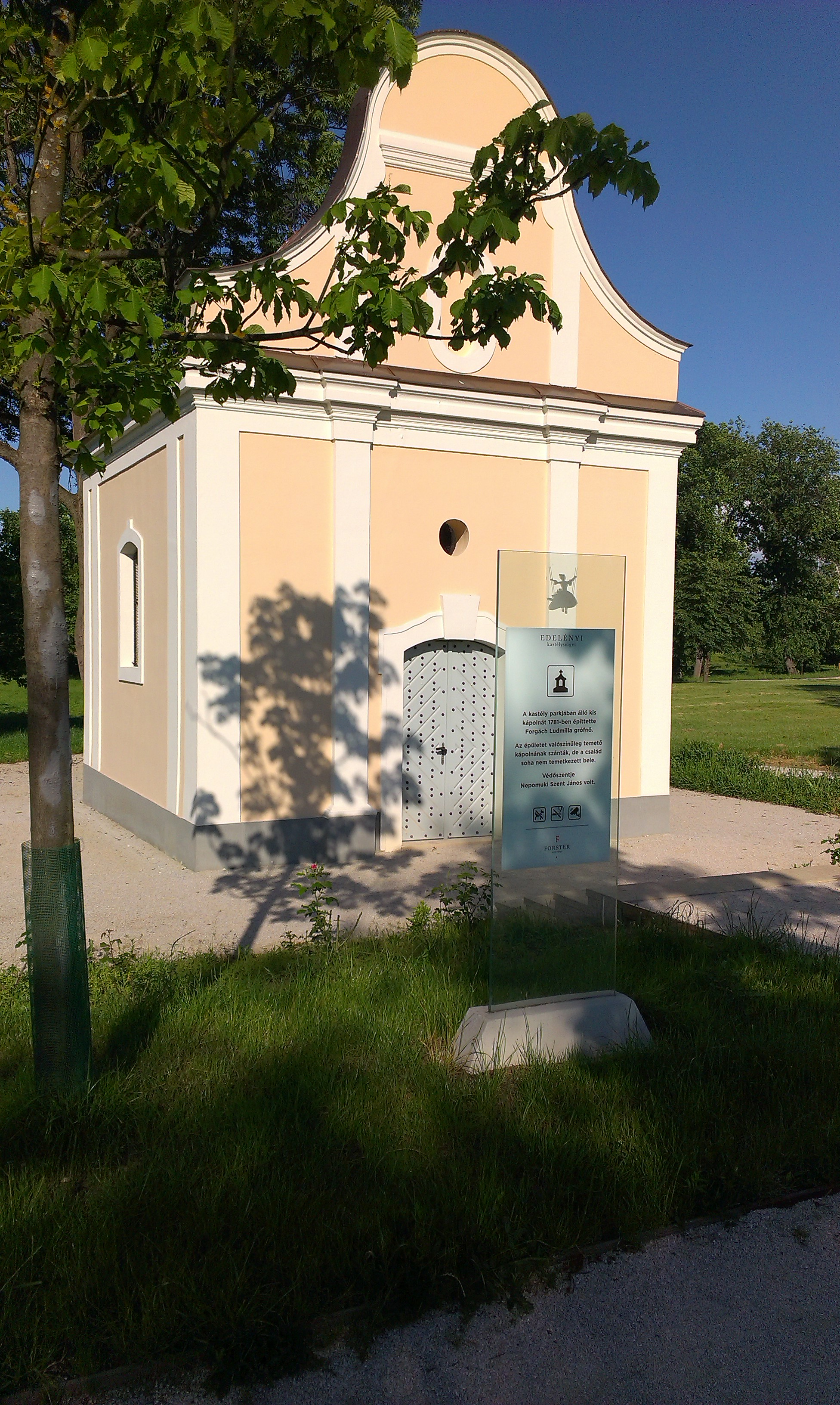 The chapel of the L'Huillier-Coburg Castle and some trees in Edelény, Hungary.